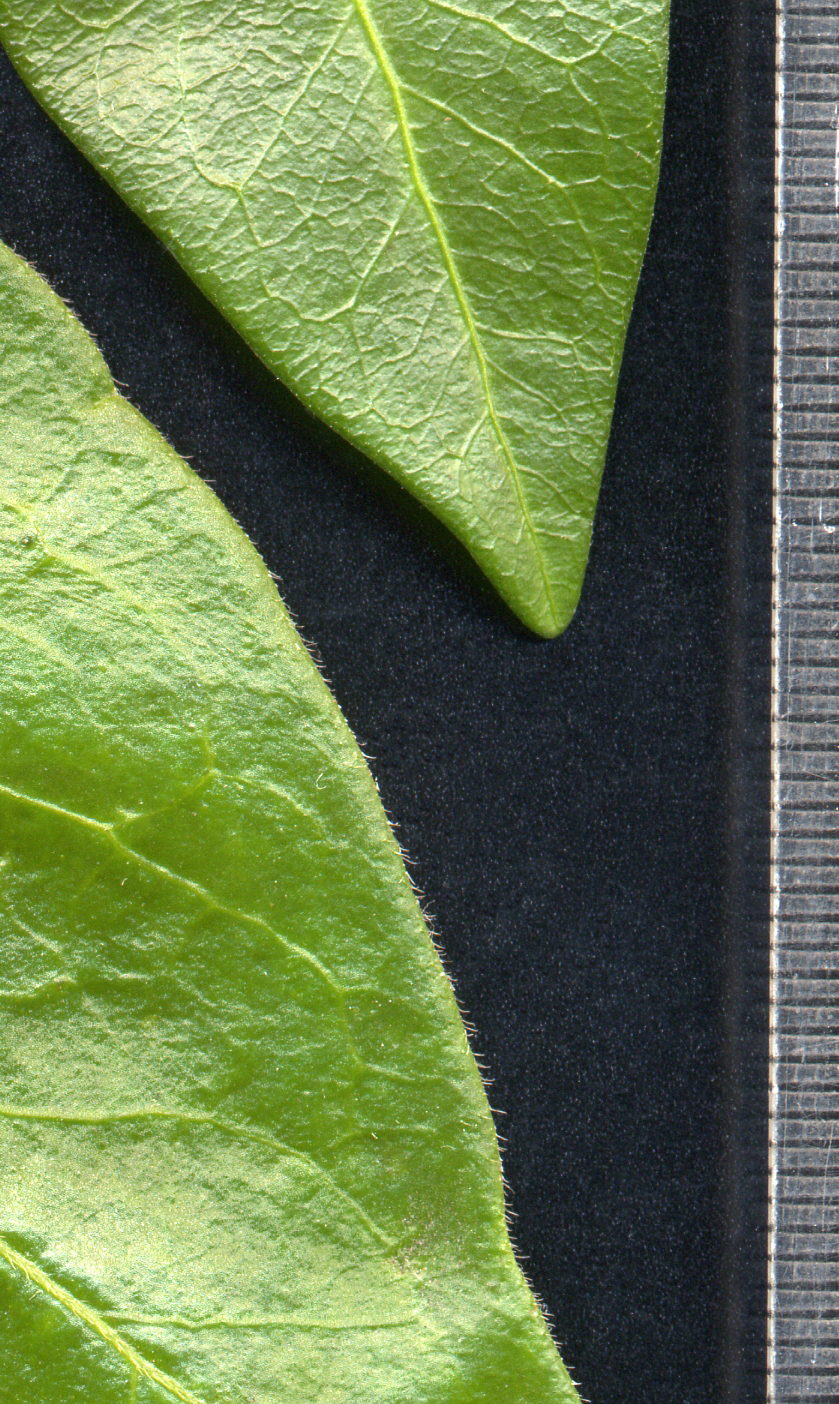 Vinca minor (above), Vinca major (below); leaf margins for comparison; note hairless margin of V. minor, hairy margin of V. major. Scale in mm.